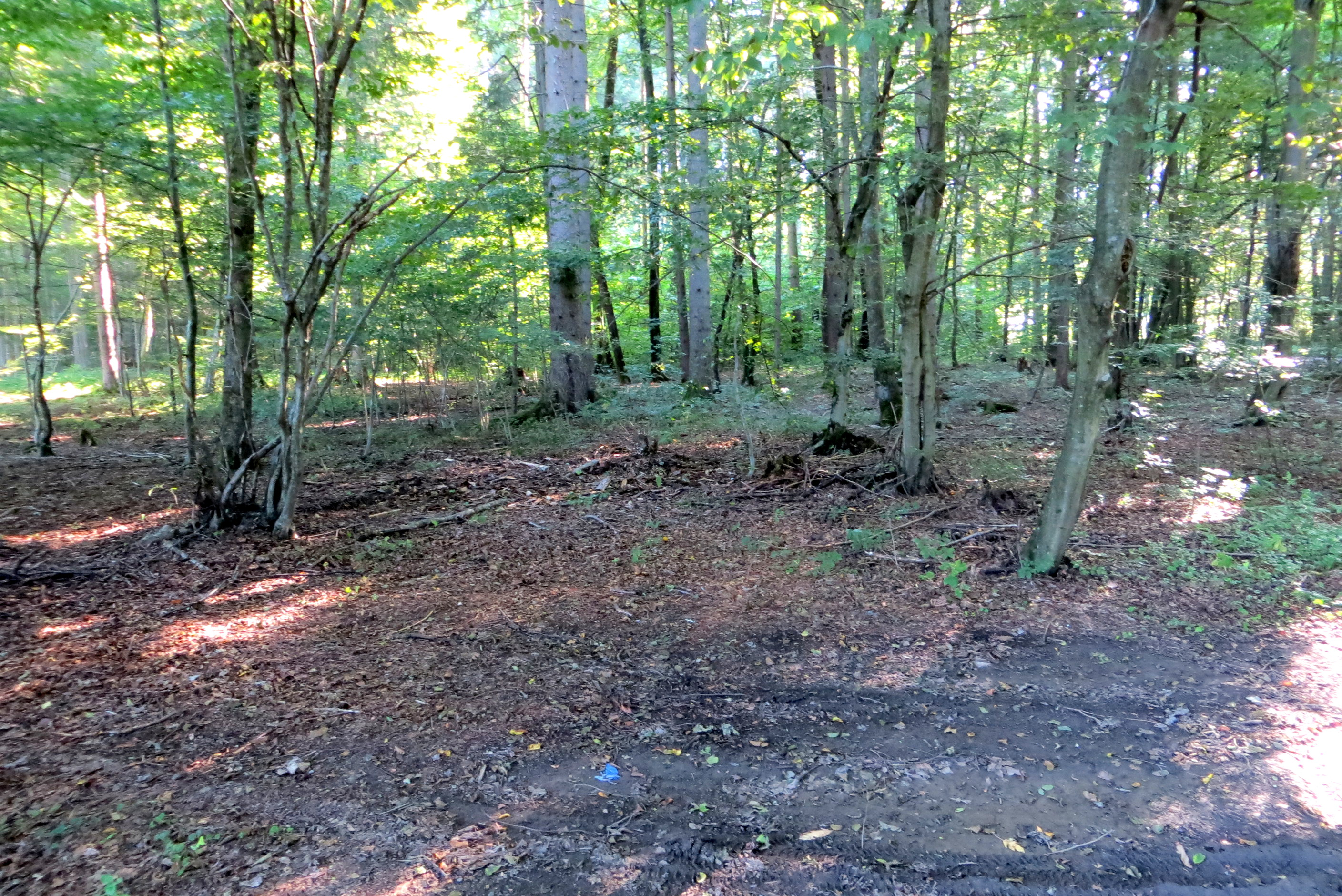 Foxtail Mass Grave (Sln. Grobišče Lisičji rep) in Mošnje, Municipality of Radovljica, Slovenia